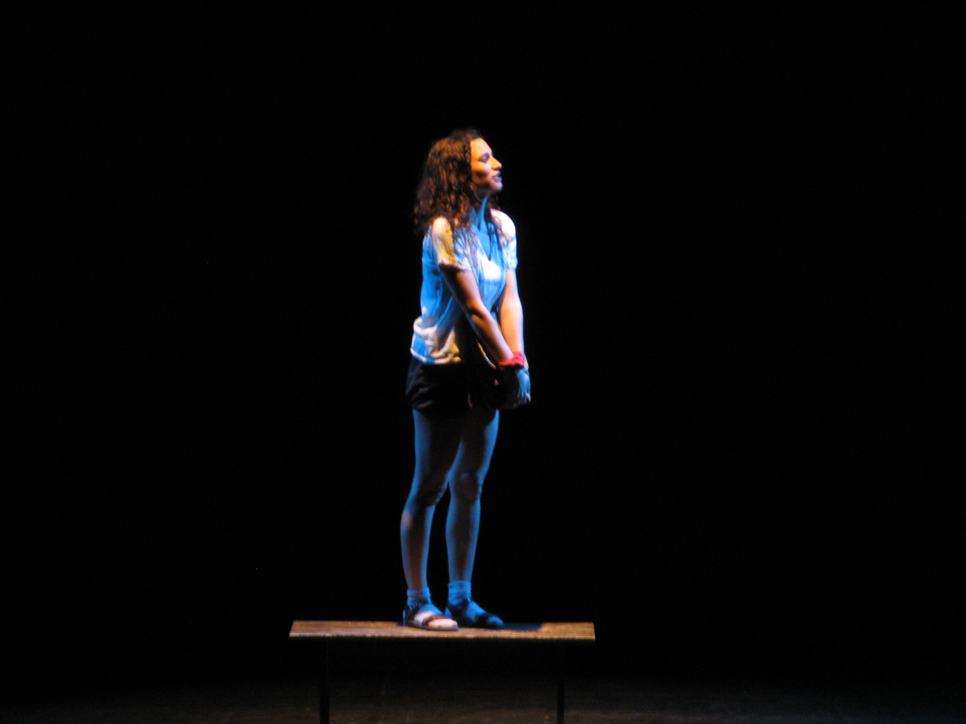 Adi Bielski as "Margalit" in the play "An Eretz-Israeli Love Story", playing in the regional council of Eilot.